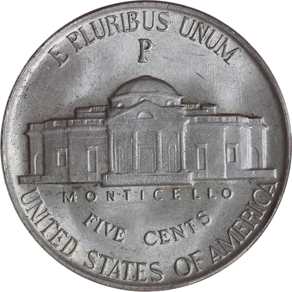 1945 P Jefferson War Nickel Reverse